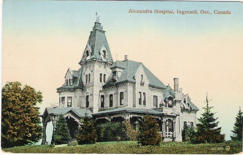 residence of James Noxon, president of Noxon Bros.